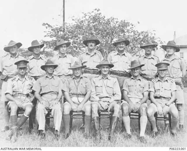 AWM description: Outdoors portrait of the officers of the New Guinea Volunteer Rifles (NGVR). Identified in the back row is: (fourth from the left) NG2033 Lieutenant (Lt) John Alexander Sutherland; (third from the right) NGX344 Lt William (Bill) McDonald; (far right) NG2296 Lt Robert Phillips. Seated in the front row are (from left): NX151701 (N280518) Captain (Capt) Hugh Lyon; NGX265 Capt Dr Noel McKenna; NGX455 Major (Maj) William Manning Edwards, commanding officer of the NGVR; NGX350 Maj Edmund Jenyns; NGX433 Capt Padre Vernon Sherwin. Capt McKenna was accidentally killed in New Guinea on the 30 September 1943, Lt McDonald died of disease on 20 July 1944. The men of the NGVR were Australian residents of Papua New Guinea who were authorised by the Australian government to raise a local volunteer rifle brigade.